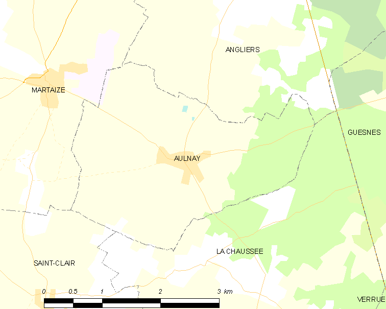 Map of French municipality Aulnay